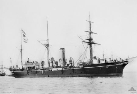 Photograph of British Alert class screw sloop HMS Torch.